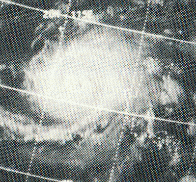 This ITOS 1 weather satellite picture of Typhoon Kate was taken on October 22, 1970 at 0727 UTC